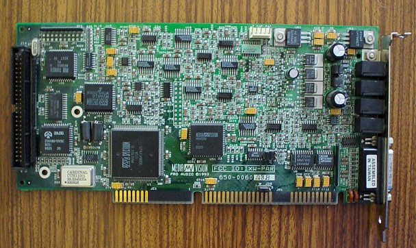 The MediaVision ProAudioSpectrum 16 card